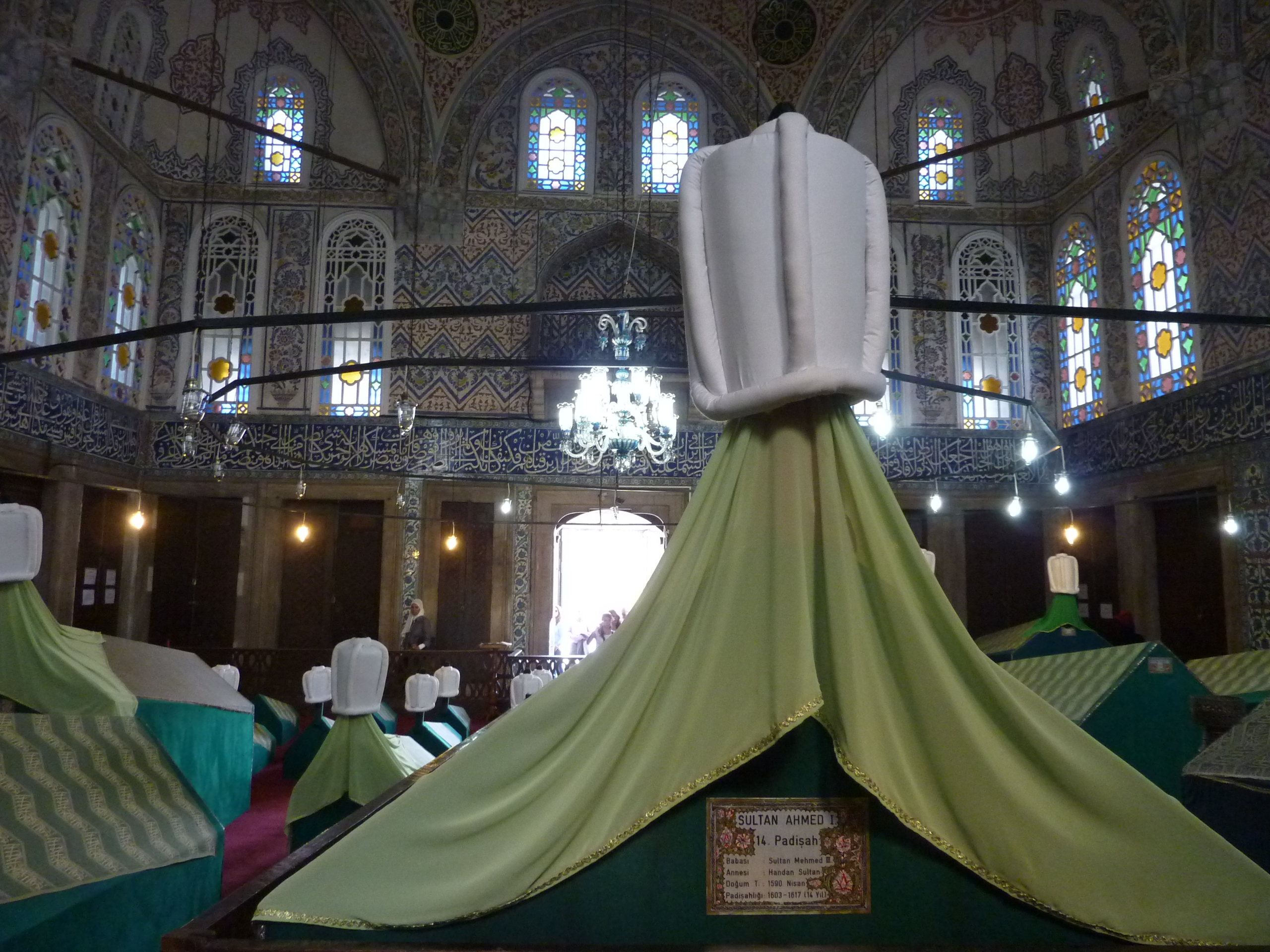 Mausoleum of Sultan Ahmed I. Located across the street from the German Fountain in downtown Istanbul.